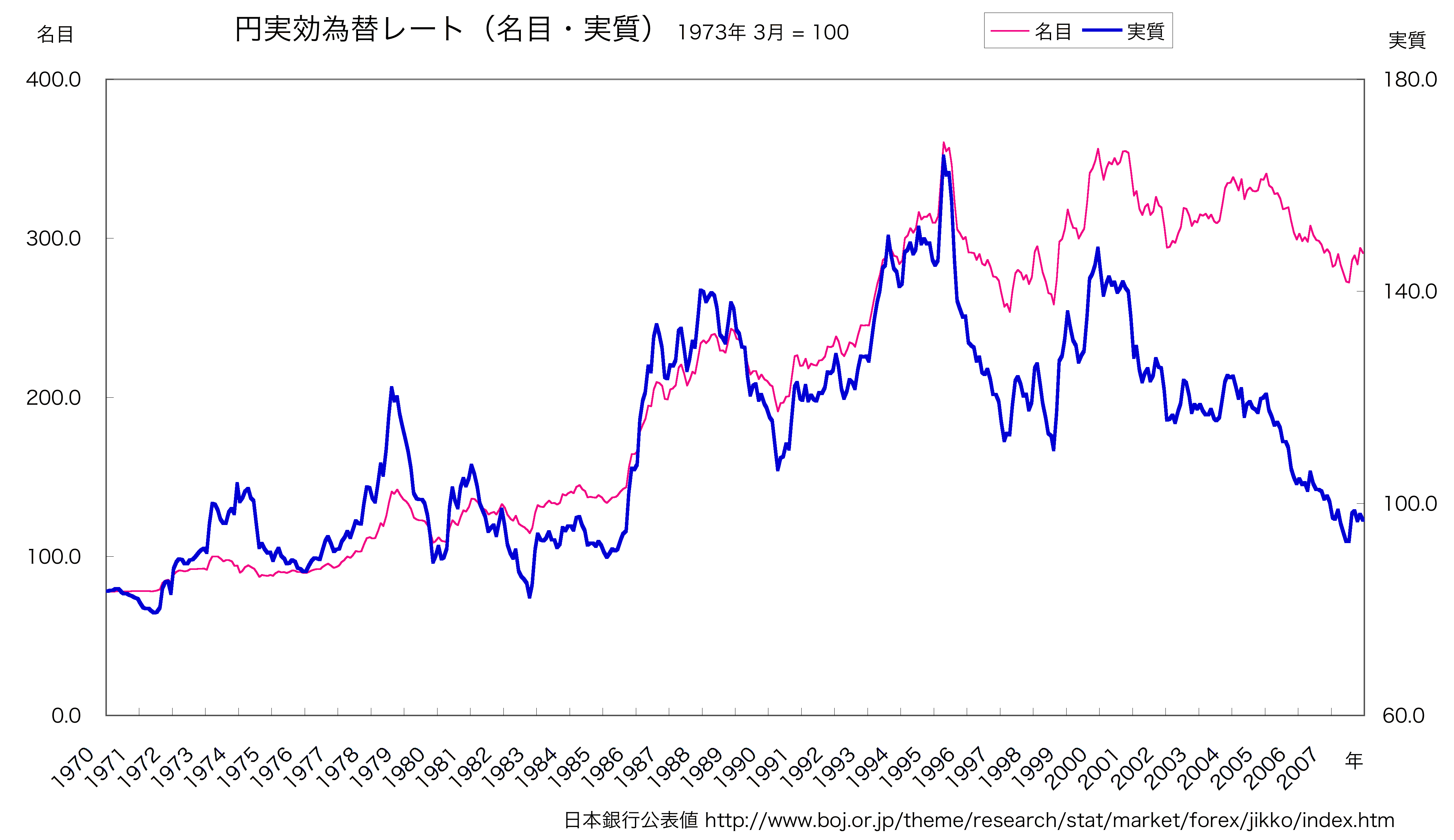 Monthly, Jan 1970 - Dec 2007, Mar 1973 = 100